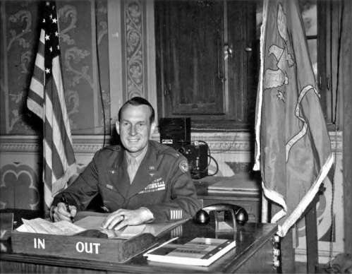 Brig. Gen. Monro MacCloskey in May 1945